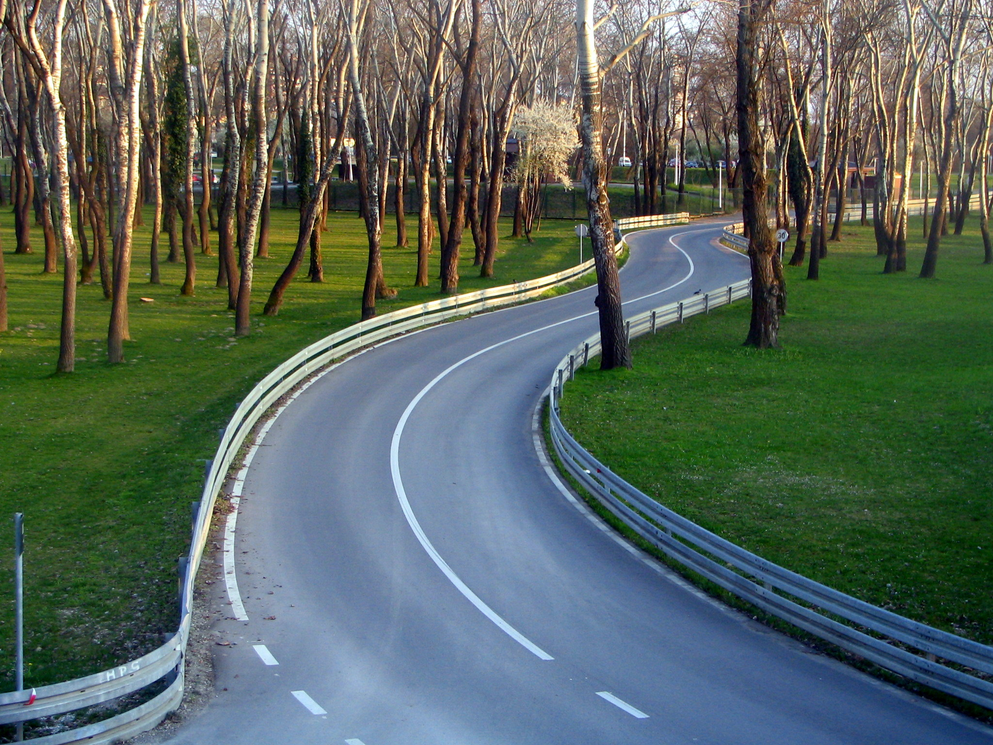 A road near Bundek Lake, Zagreb, Croatia.